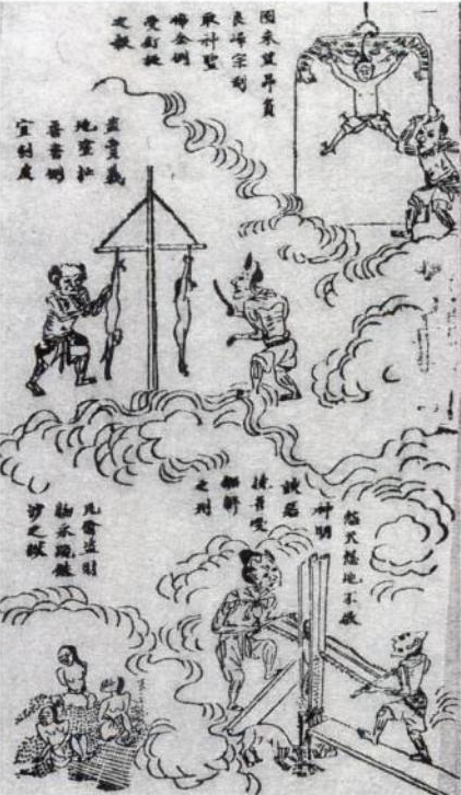 Illustration from the 19th century Jade Record, showing sinners being tortured in the sixth court of hell. Hammering metal spikes into the body; skinning alive; sawing body in half; kneeling on metal filings.